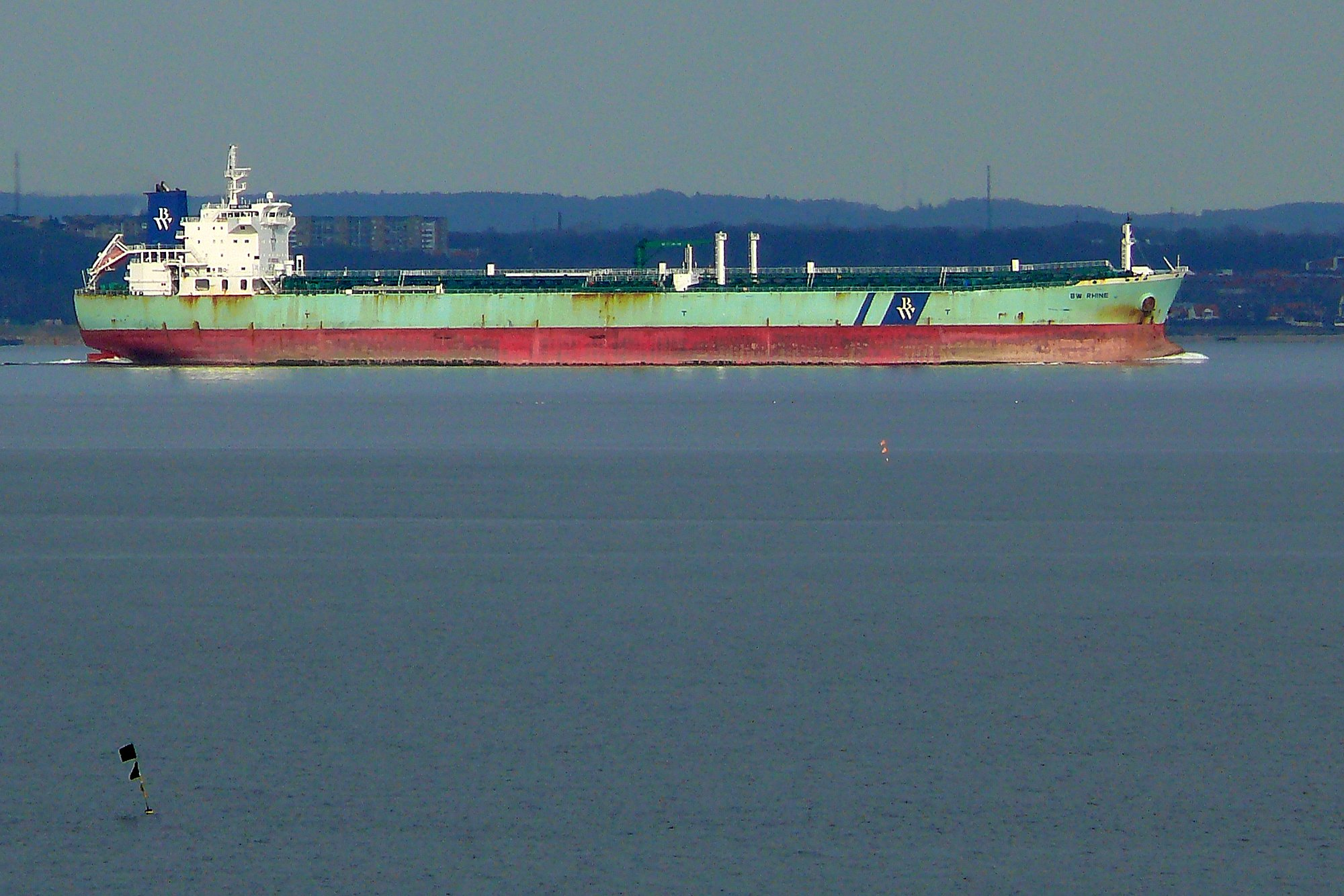 Technical Data Vessel type:Oil Products Tanker Gross tonnage:43,797 tons Summer DWT:76,600 tons Length:228 m Beam:33 m Draught:12.5 m Build: 2008